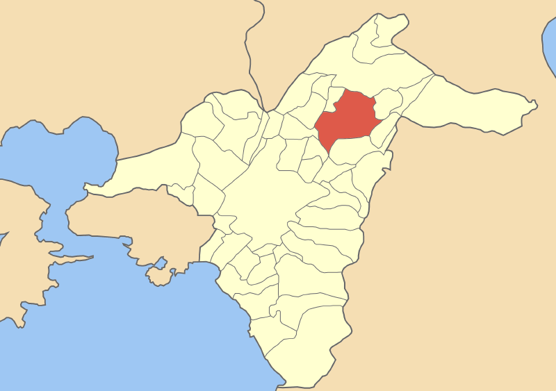 Locator map of Amarousi municipality (Δήμος Αμαρουσίου) in Athina Nomarchia (Νομαρχία Αθηνών) in Greece.